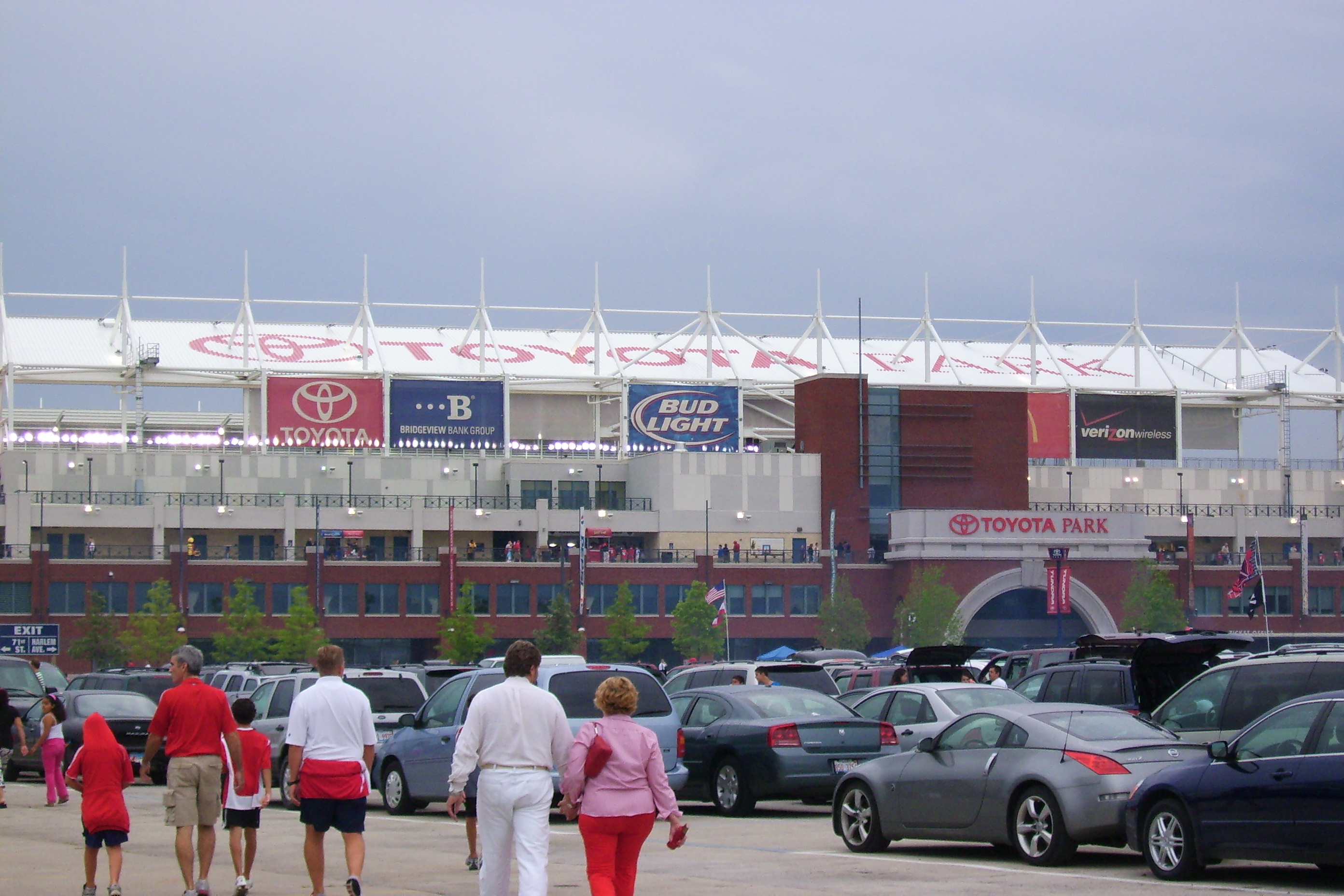 "Toyota Park" Home of Chicago Fire in Chicago, IL (USA)